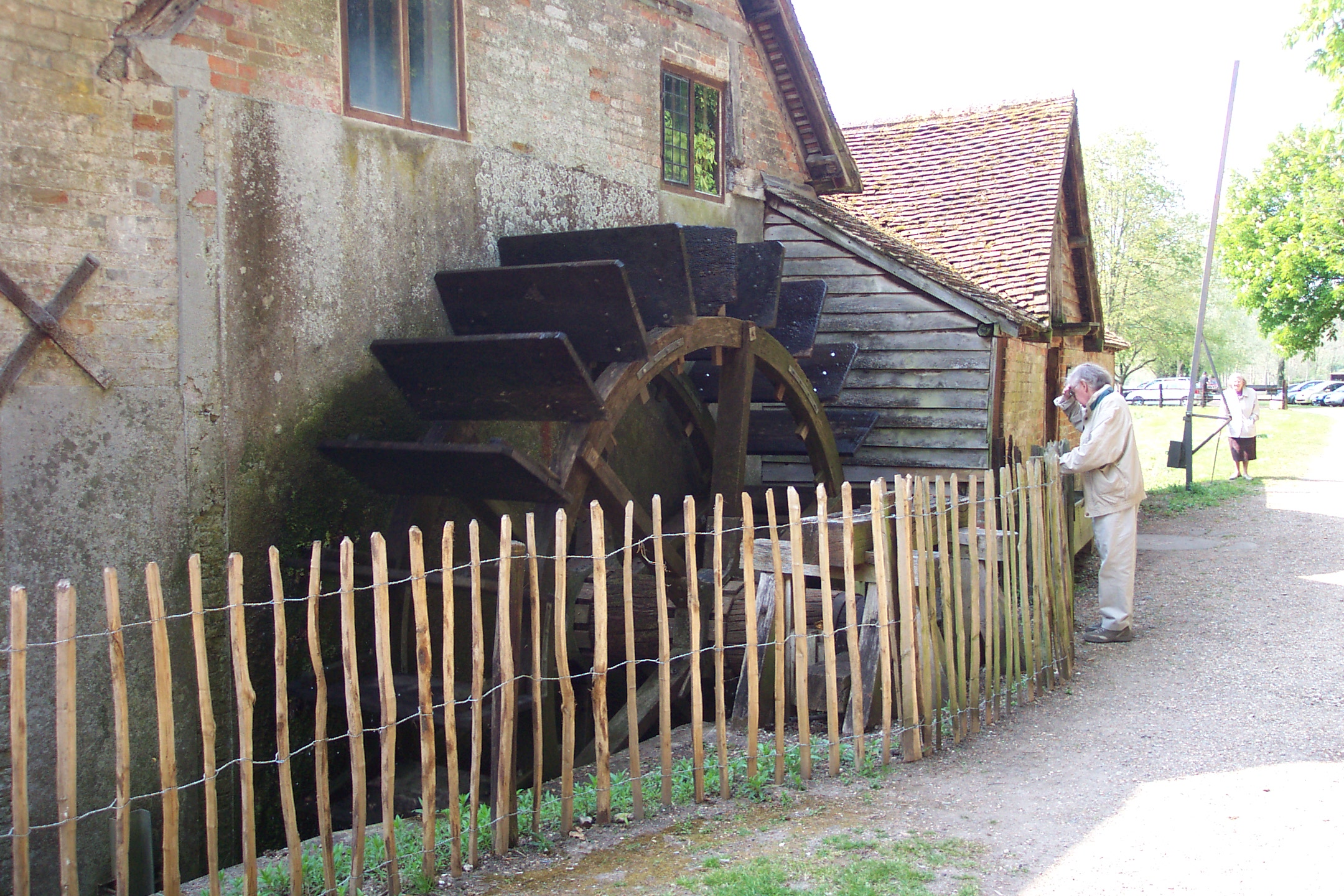 The waterwheel at Mapledurham Watermill, Mapledurham, Oxfordshire, England. For a wider view of the mill, see either Mapledurham Watermill 1.JPG or Mapledurham Mill.jpg images. For more information, see the Mapledurham Watermill Wikipedia article.